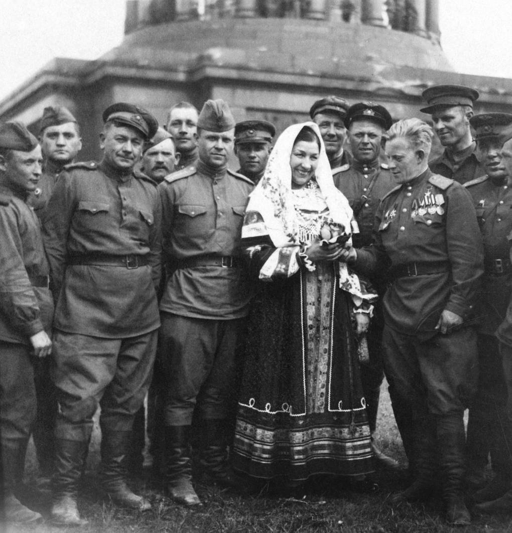 Berlin. Fighter pilot Alexei Rogozhin presents singer Lidiya Ruslanova with a souvenir near the Reichstag. Photo TASS